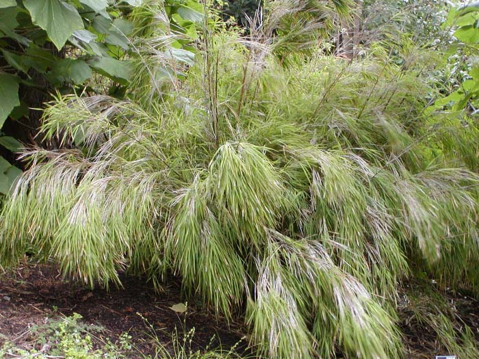 Photo of Otatea acuminata at the San Francisco Botanical Garden